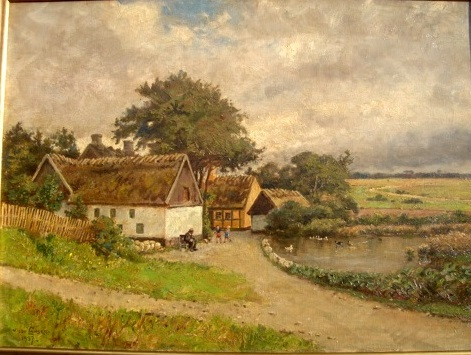 Painting from Soderup near Tølløse, Denmark